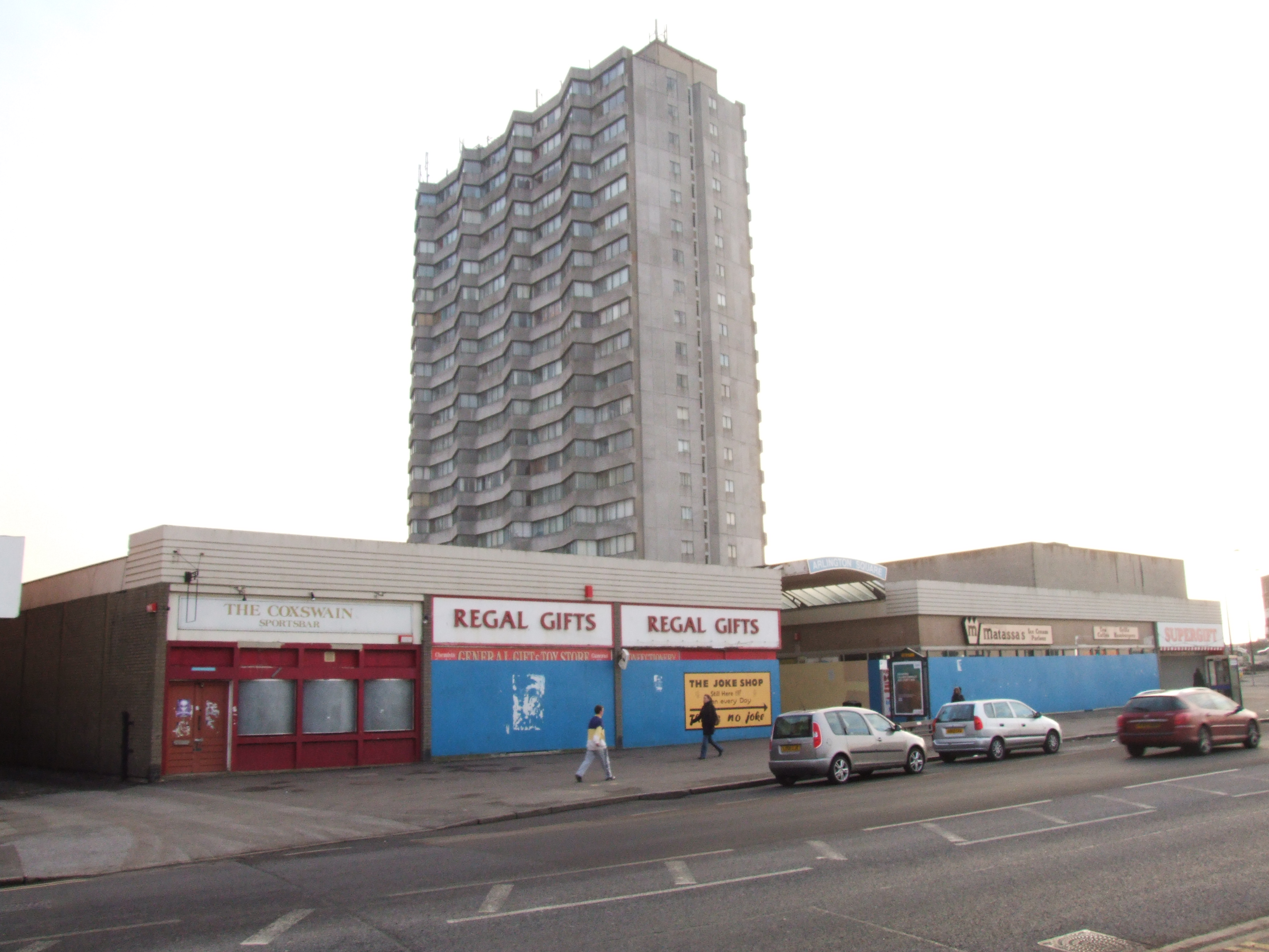 Arlington Square, Margate Arlington House looms large over the seafront.